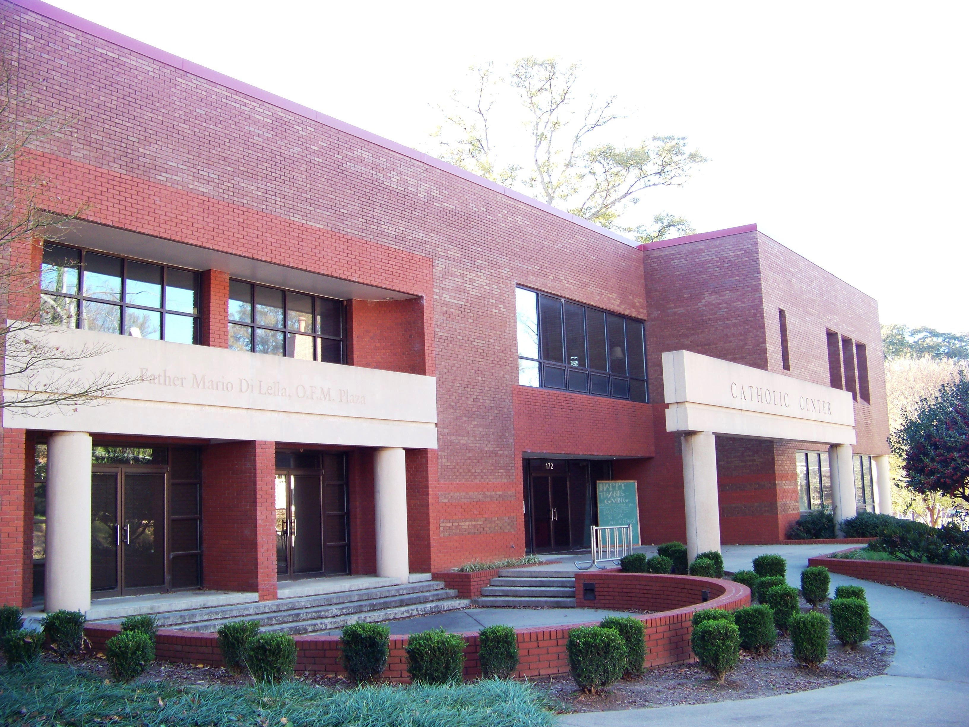 Catholic Center at Georgia Tech